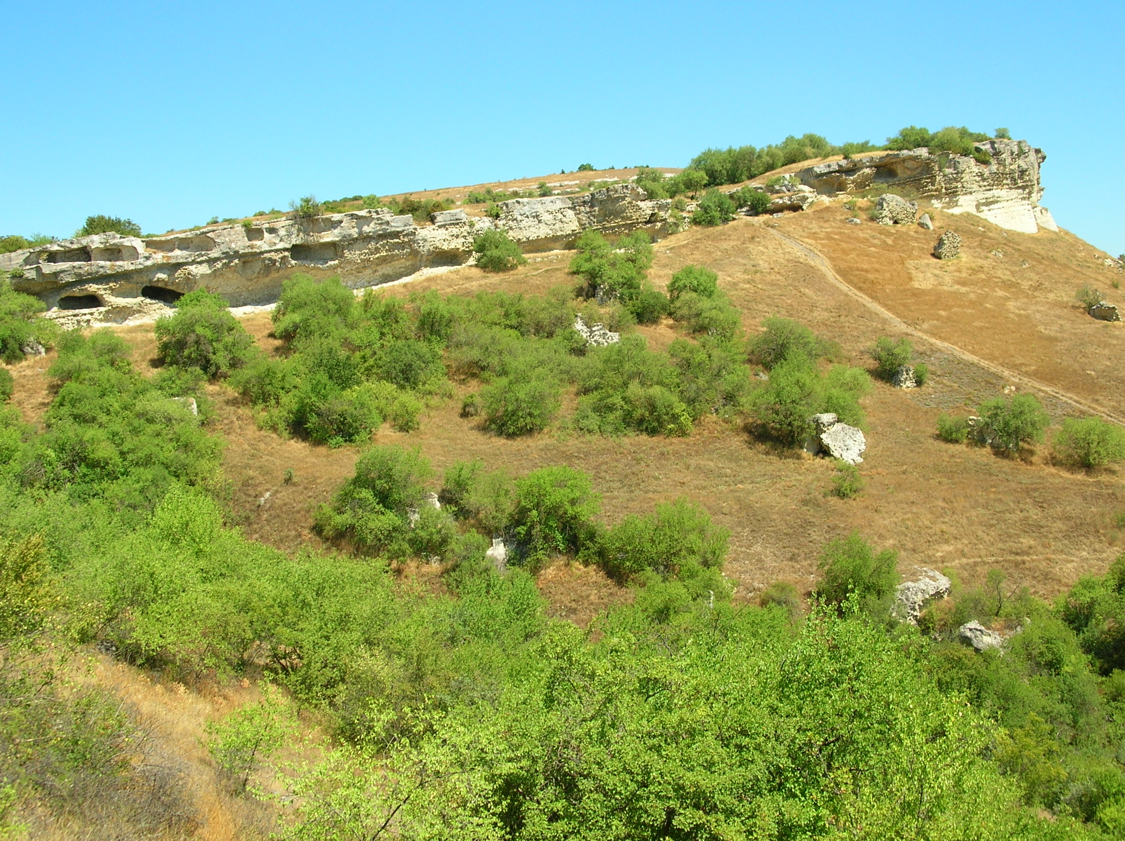 Bakla - cave city in Crimea